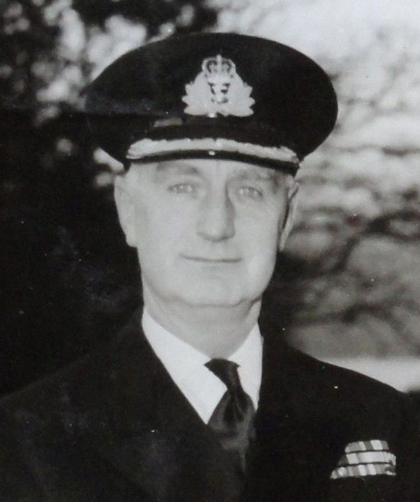 Photograph of Captain Mervyn R G Wingfield in about 1955.